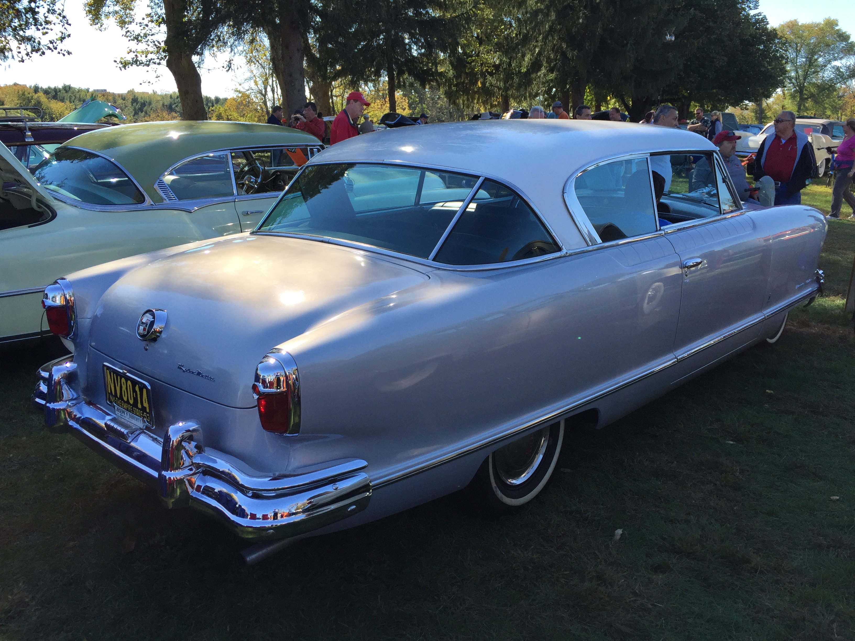 1953 Nash Ambassador Custom, a full-sized car riding on a 121.25 inch (3080 mm) wheelbase, with a 209.25-inch (5315 mm) overall length and 78-inch (1981 mm) width. This is the two-door hardtop (no center or B-pillar) in the "Airflyte" body design. It has the 252.6 cubic inch (4.14 L) 120-horsepower "Super Jetfire" straight-six engine and HydraMatic automatic transmission. Picture taken on the show field of the Antique Automobile Club of America (AACA) 2015 Eastern Regional Fall meet that is held every October in Hershey, Pennsylvania.